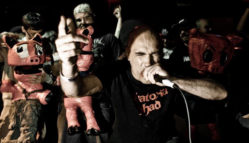 Green Jelly Live @ The Dome, bakersfield, Ca. 05/28/10